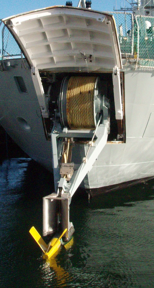 Variable depth sonar on danish navy Thetis-class